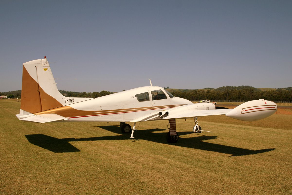 An early model Cessna 310B, with straight fin, two small side windows and 'tuna tank' wingtip fuel tanks at Illawarra Regional Airport in New South Wales on 26 February 2011.